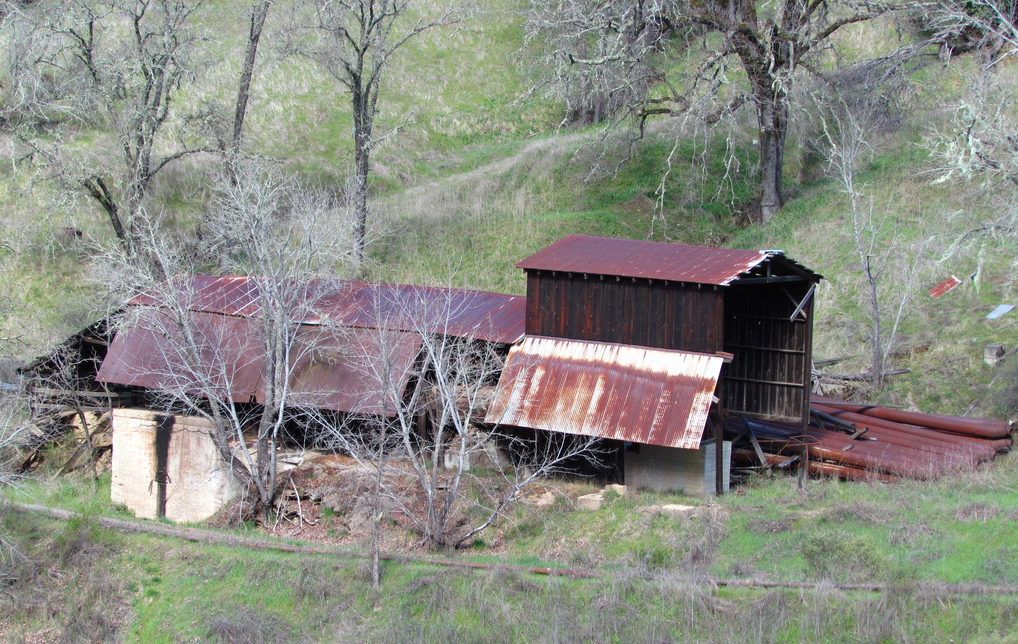 Abandoned mercury mine, Mercuryville, California